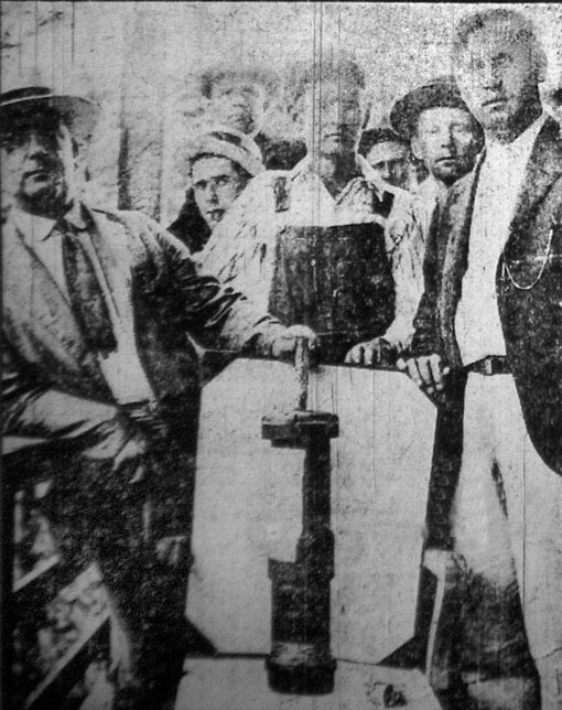 UMW officials and members of the "miner's army" display a bomb dropped on them during the Battle of Blair Mountain